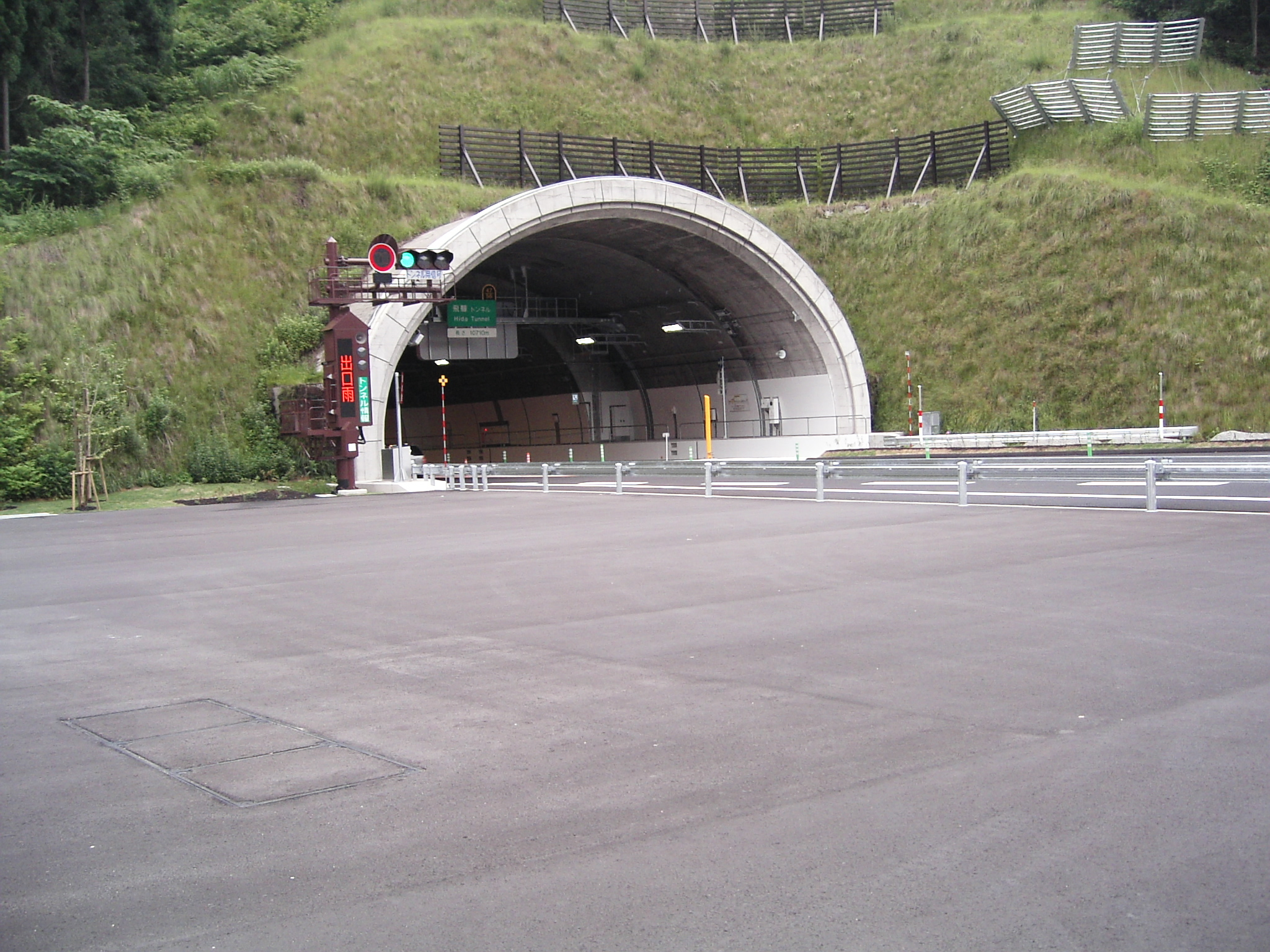 Entrance of the Hida Tunnel on the Tokai-Hokuriku Expressway in Japan, photographed at Hida-Kawai Parking Area